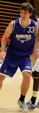 Ben Purser of the Perry Lakes Hawks; Jeremiah Wilson of the Cockburn Cougars behind him